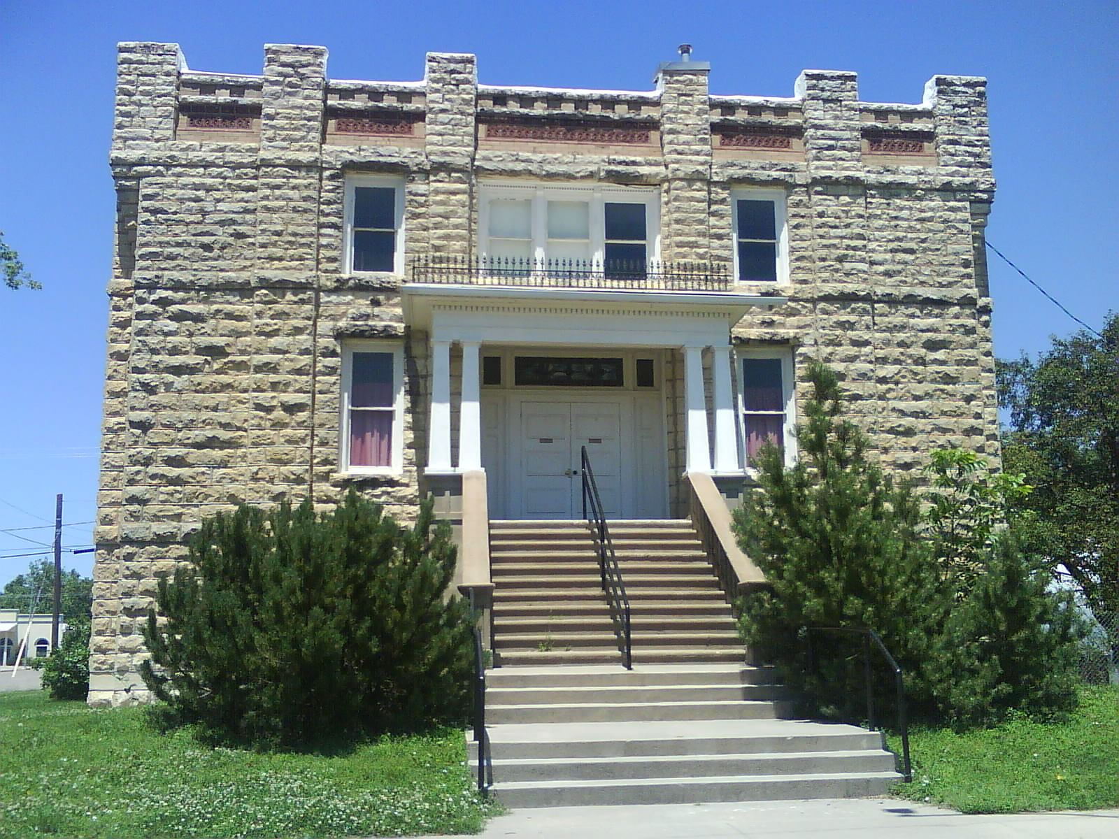 Brian Hall, author. Photo taken June 2008 in Waterville, Kansas.